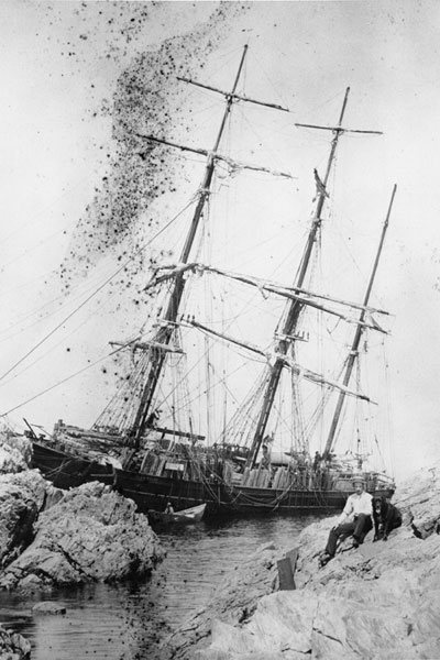 Original caption: “This photograph shows the barque Ella Moore in dire straits stranded on the rocks near Canso. Despite her precarious postion, she was repaired and continued her long career until 1907 when she was retired. You can see her cargo of railway ties on the deck stacked like matchsticks.”